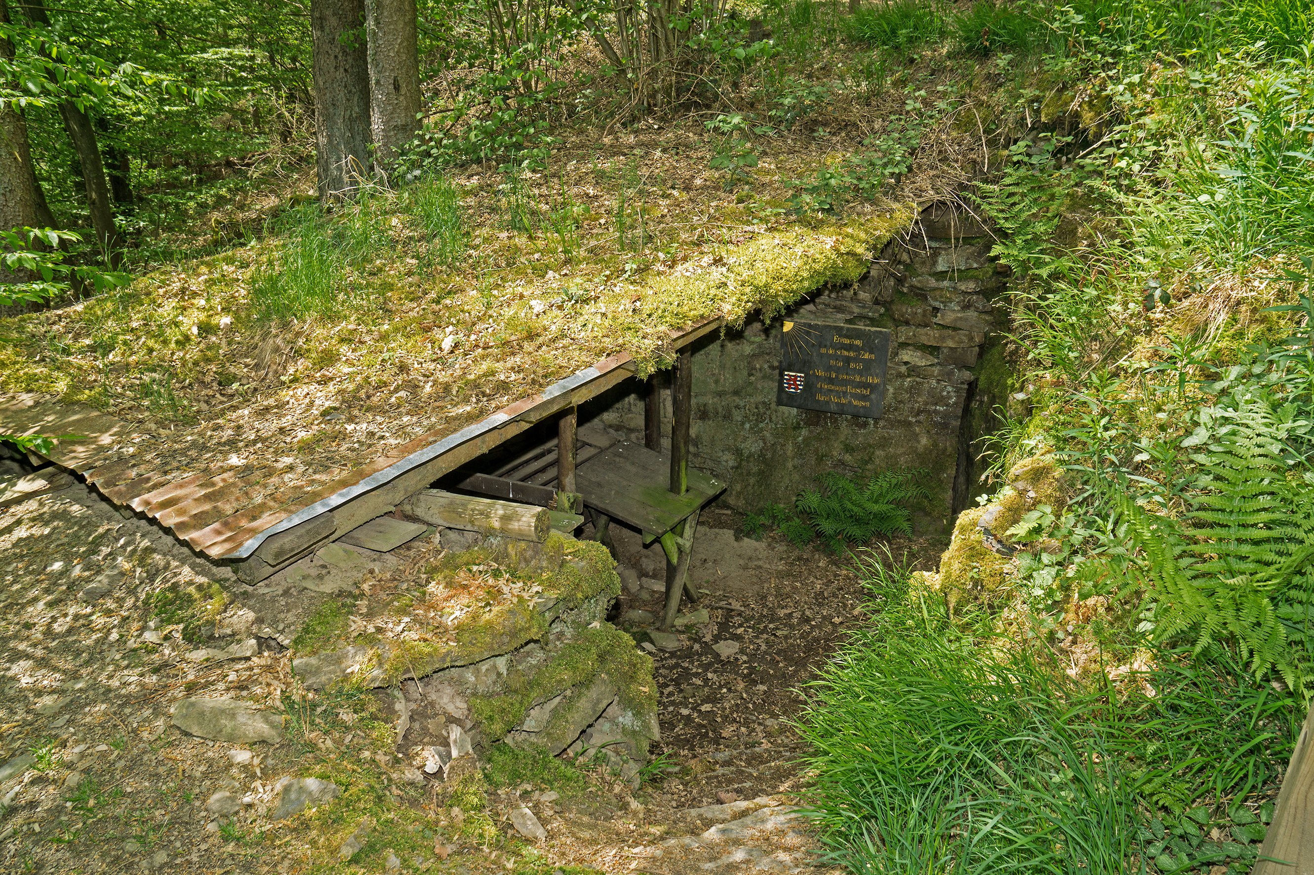 Hiding place of deserters in world war II on land parcel Runtschelt near Kaundorf